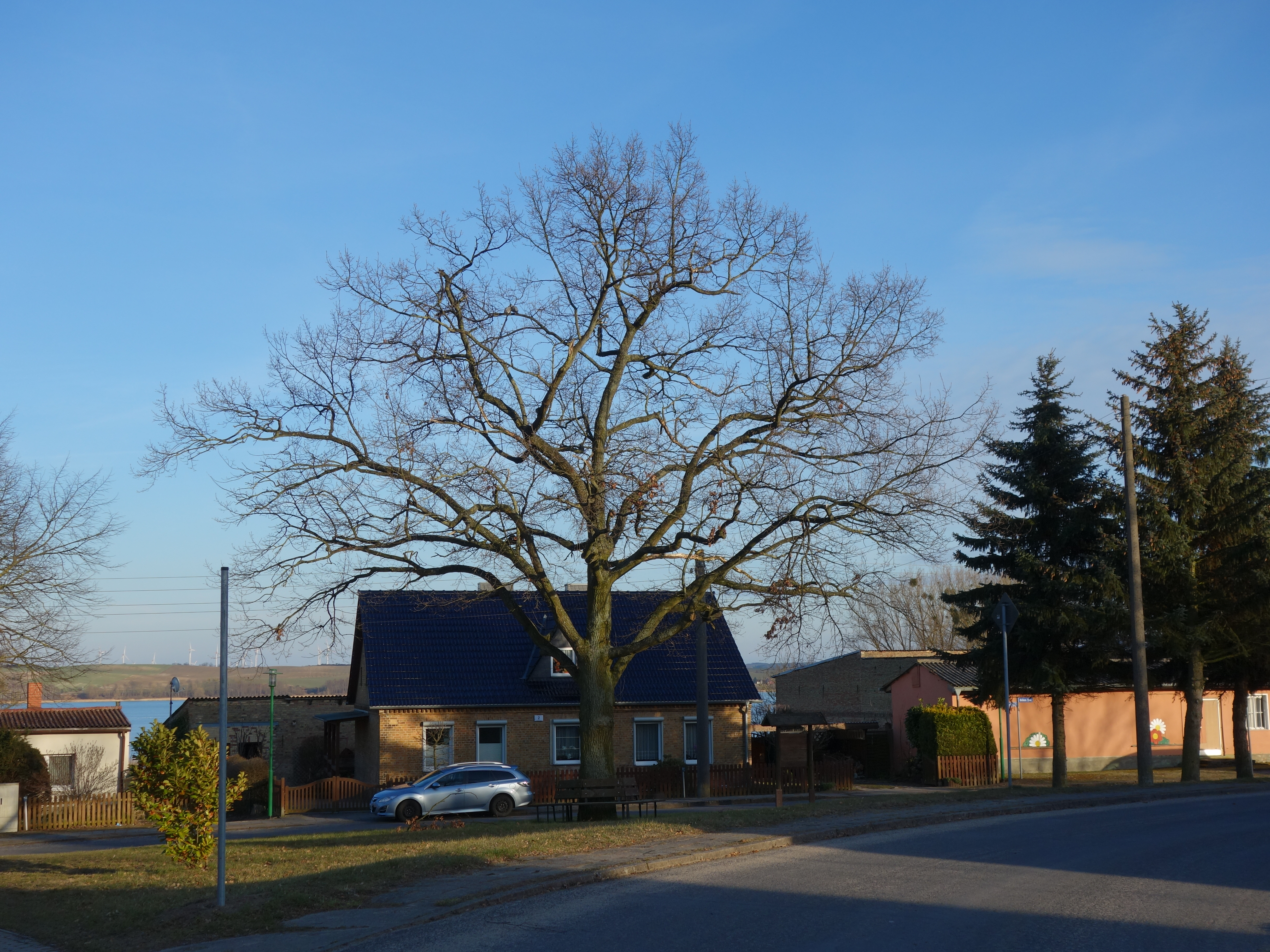 View of the oak of peace in Zollchow , Nordwestuckermark municipality , Uckermark district, Brandenburg state, Germany